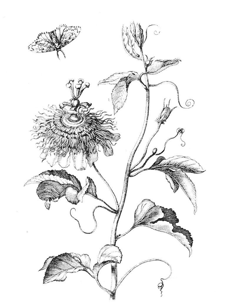 Illustration of Passiflora incarnata